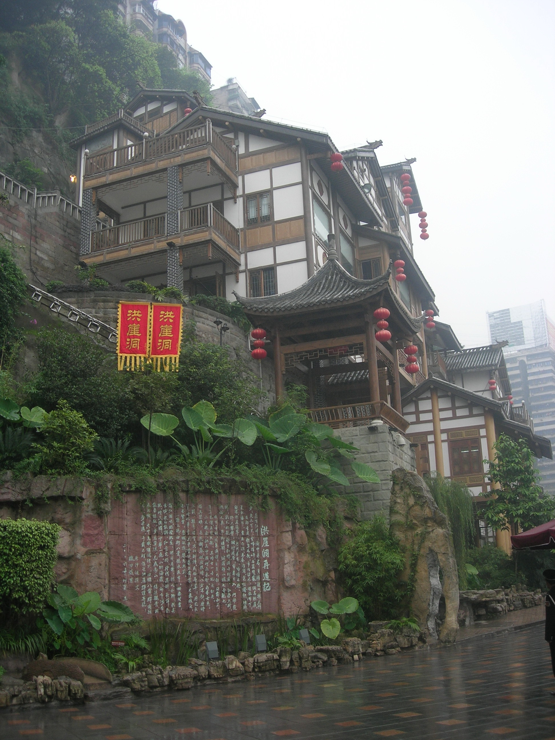 The Hongyadong stilted house in Chongqqing city. This photo has been taken by Mr.Chen Hualin.